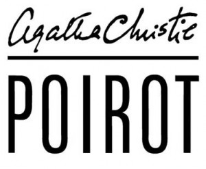 Agatha Christie's Poirot Logo